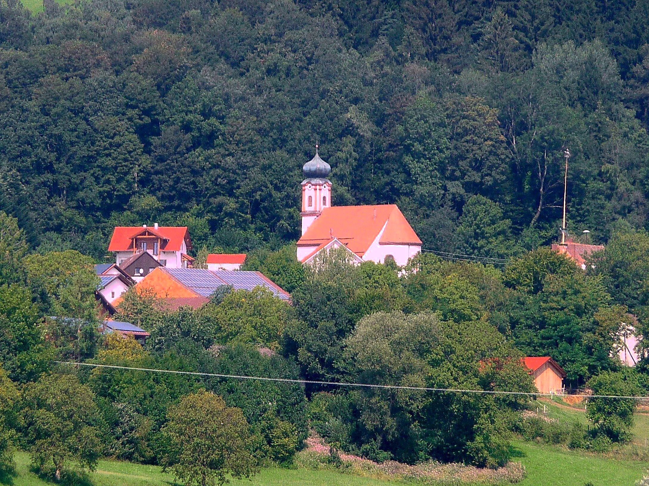 Parish church St. Laurentius in Perasdorf, Germany